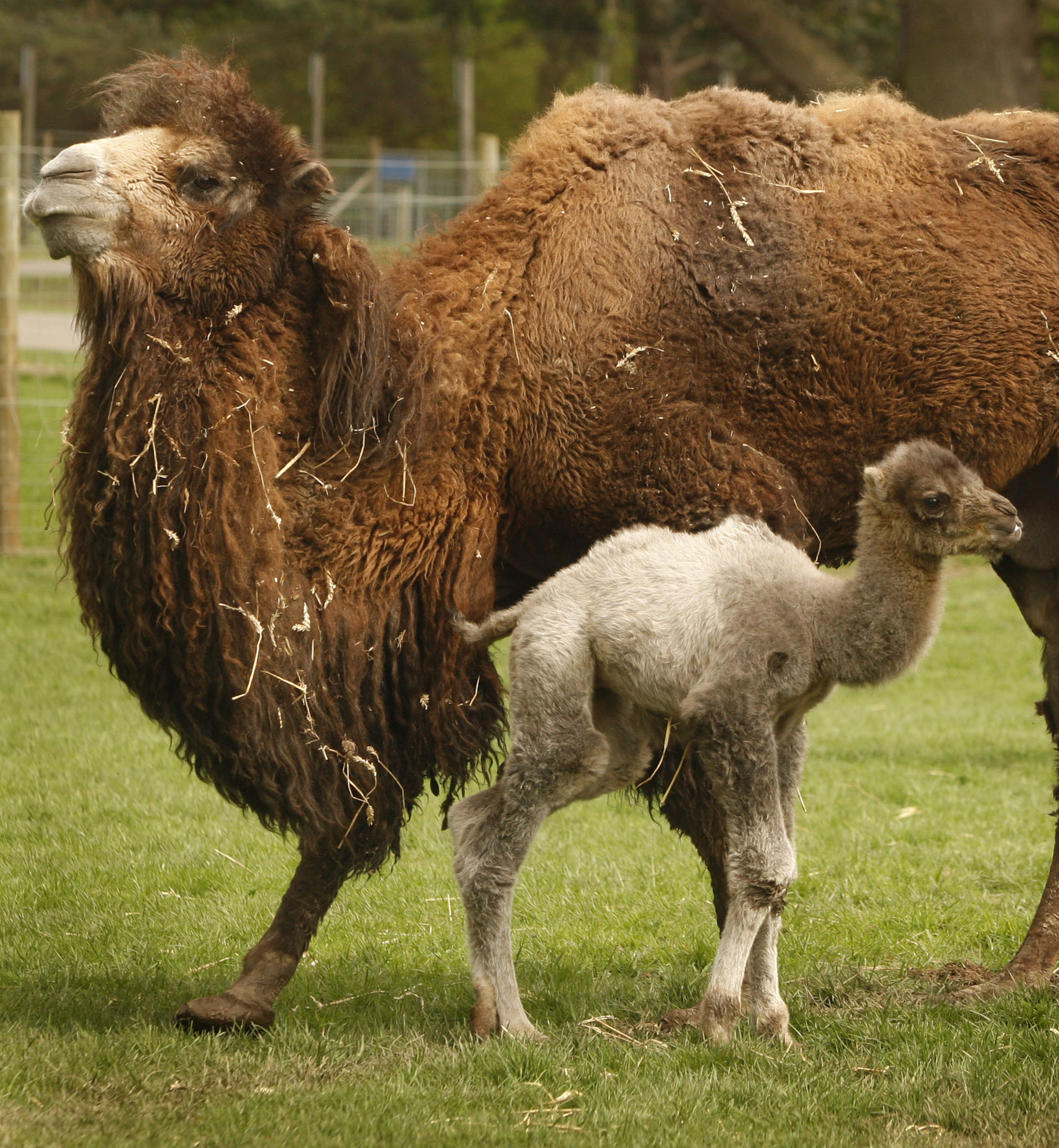 Bactrian camel calf with mother